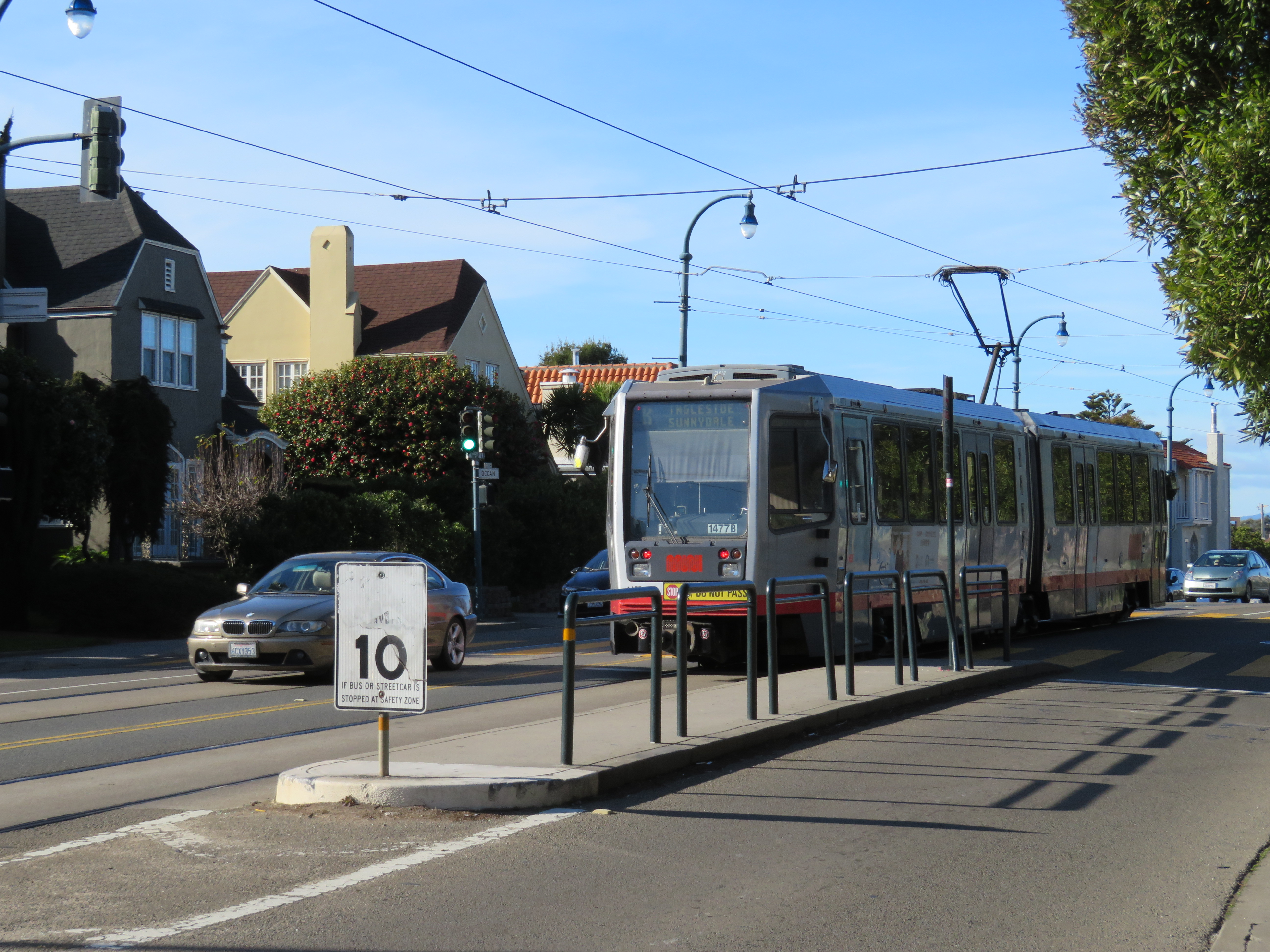 Inbound train at Ocean and Aptos station in January 2018